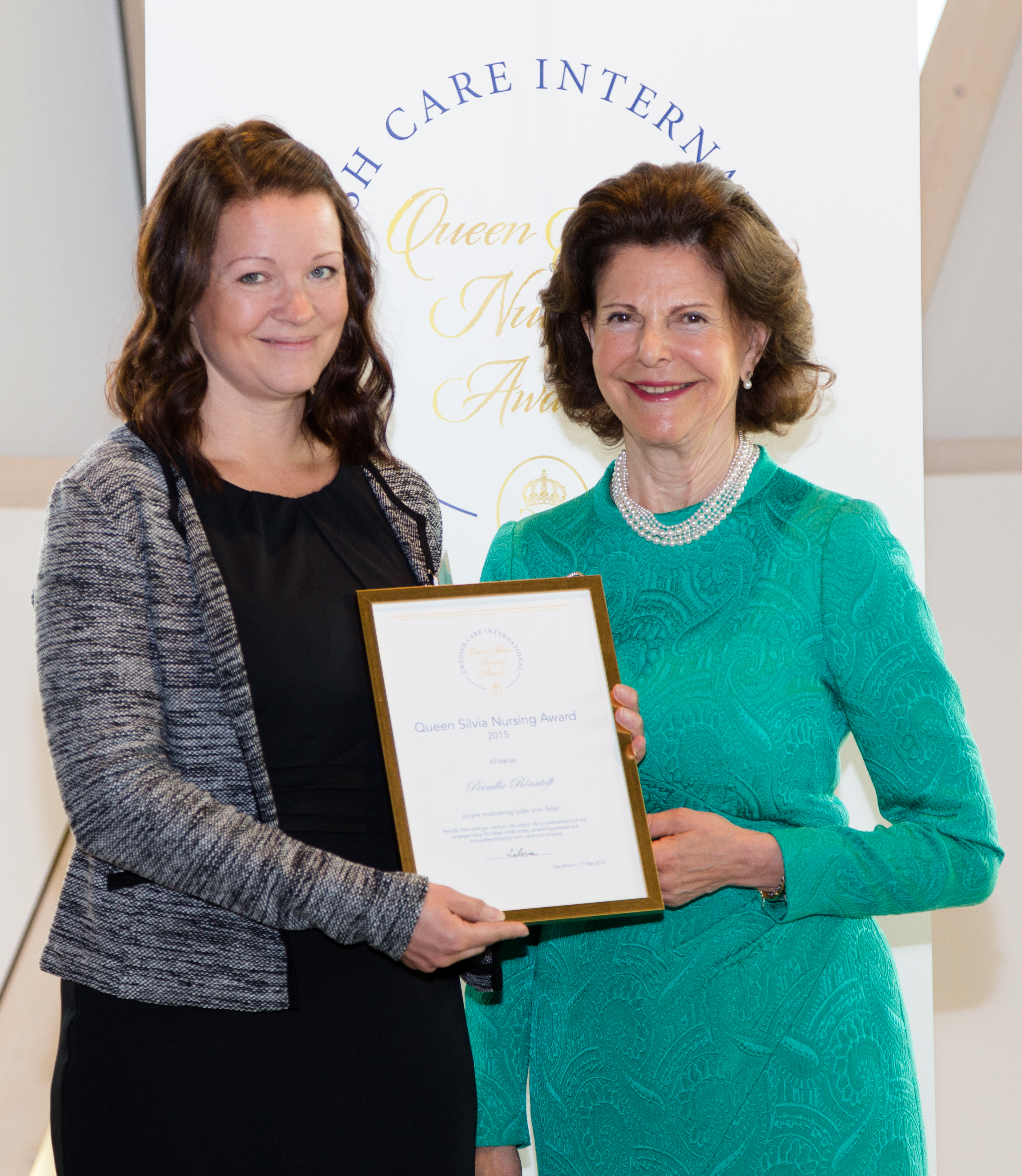 From prize ceremony on the 17th of May, Aula Medica, Stockholm